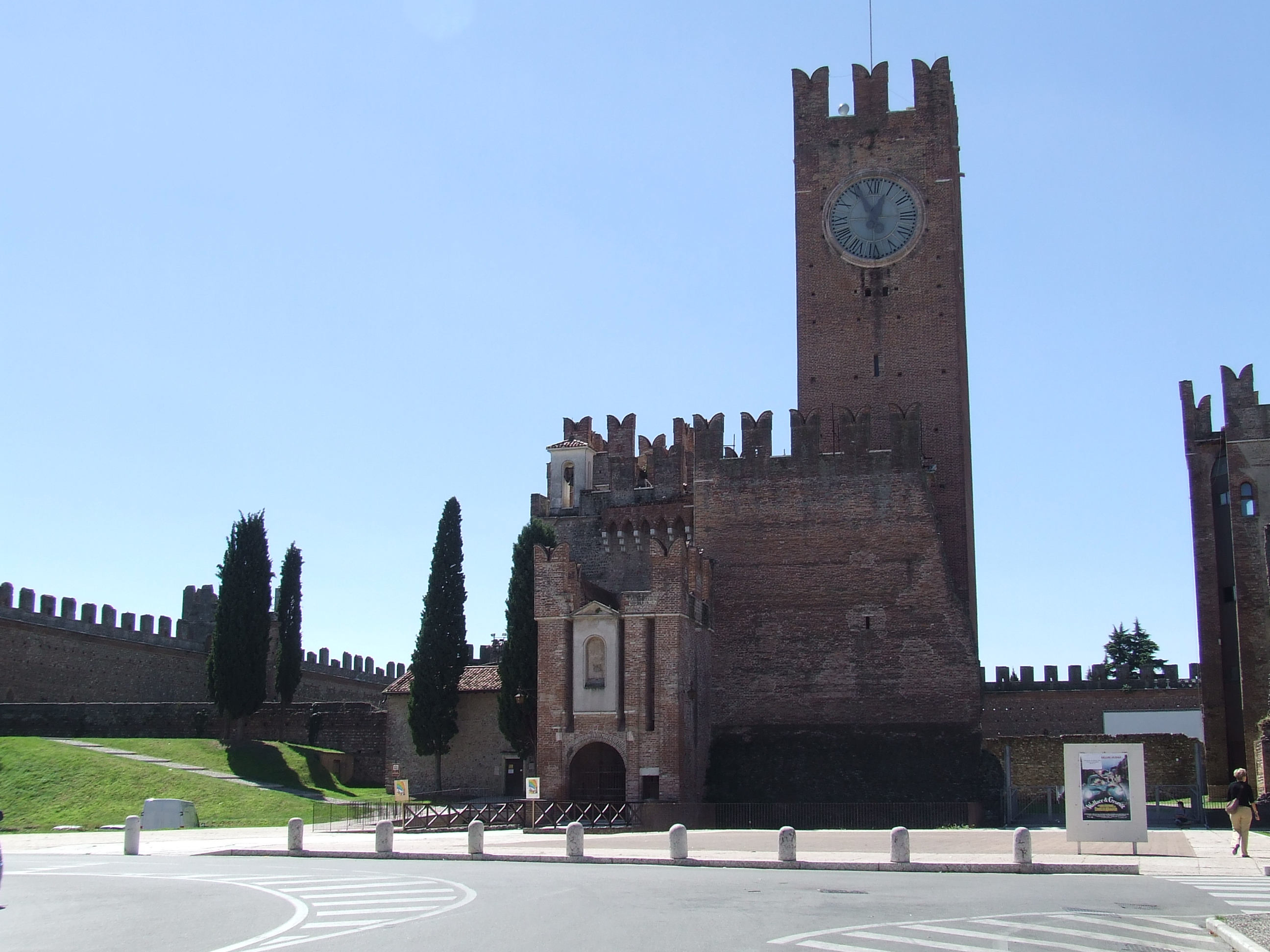 The Villafranca Scaliger Castle. This file was made by M@nrico72.